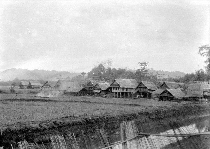 View of the village Maros